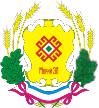 Mariy-El, coat of arms